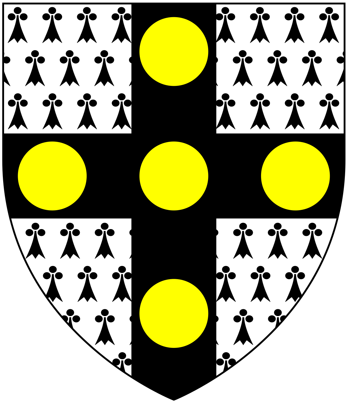 Arms of St Aubyn, as quartered by the Molesworth-St Aubyn Baronets of Pencarrow, Cornwall: Ermine, on a cross sable five bezants (Debrett's Peerage, 1968, p.709)